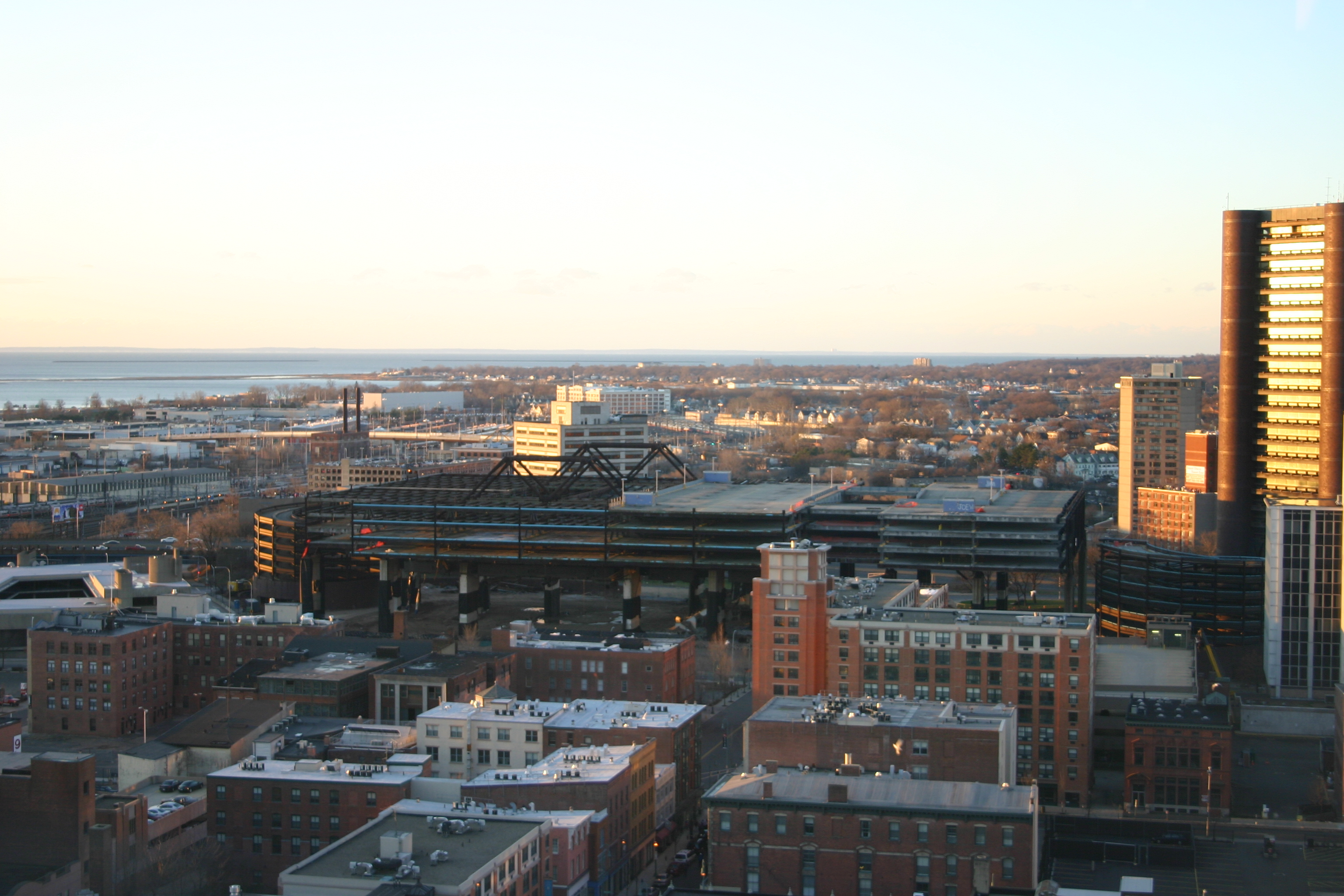 New Haven Coliseum on the morning of its planned demolition. The Coliseum itself had previously been deconstructed at this point, all that remain is the parking garage that had been above the coliseum, so the image does not show the look of the original construction. On the right is the Knight of Columbus Building in New Haven. Category:Photographs by User:Staxringold